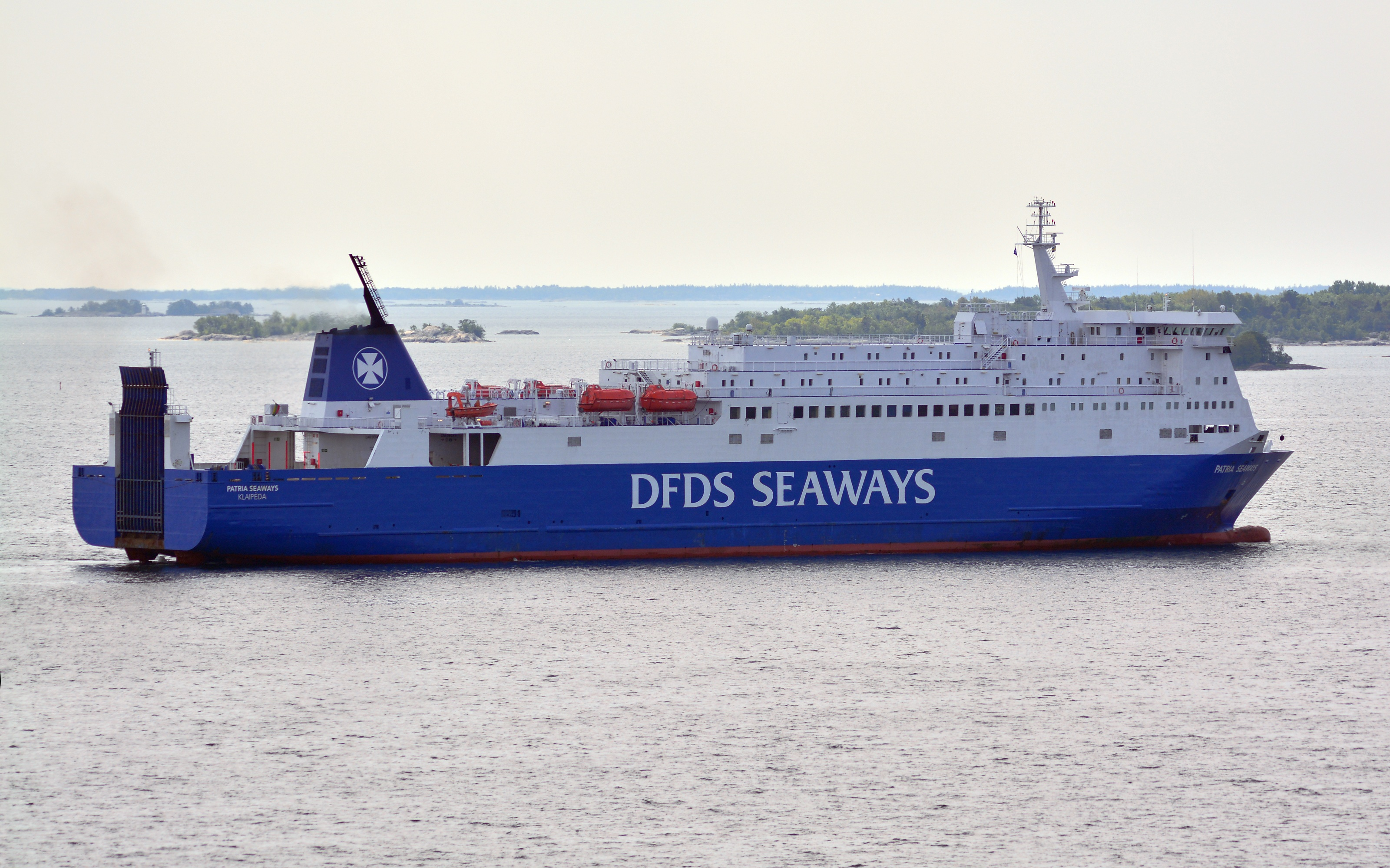 Ro-ro/passenger ferry Patria Seaways near Kapellskär, june 2014.